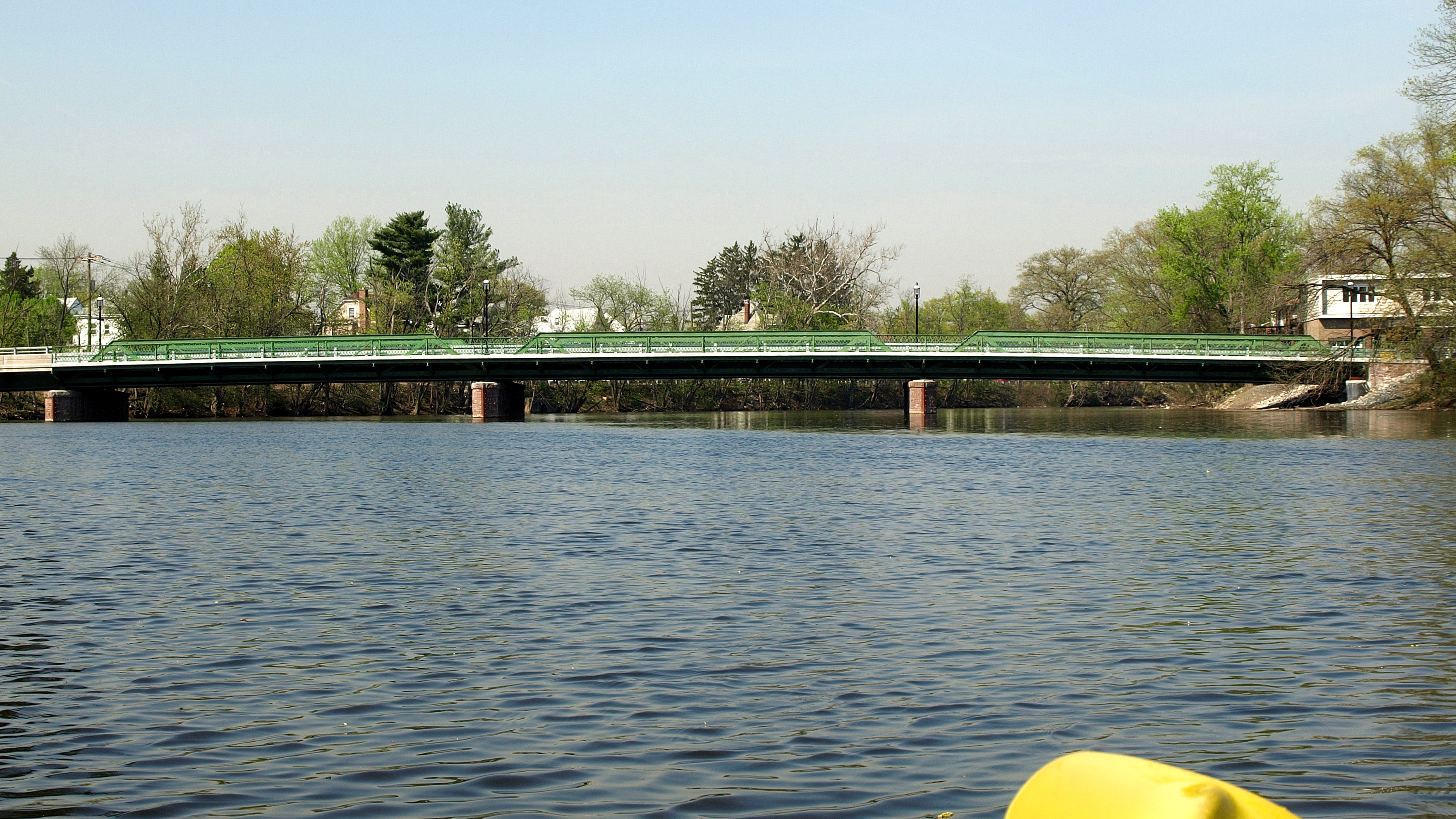 Hillery Street Bridge over the Passaic River, Totowa - Woodland Park, New Jersey (looking northeast by kayak)